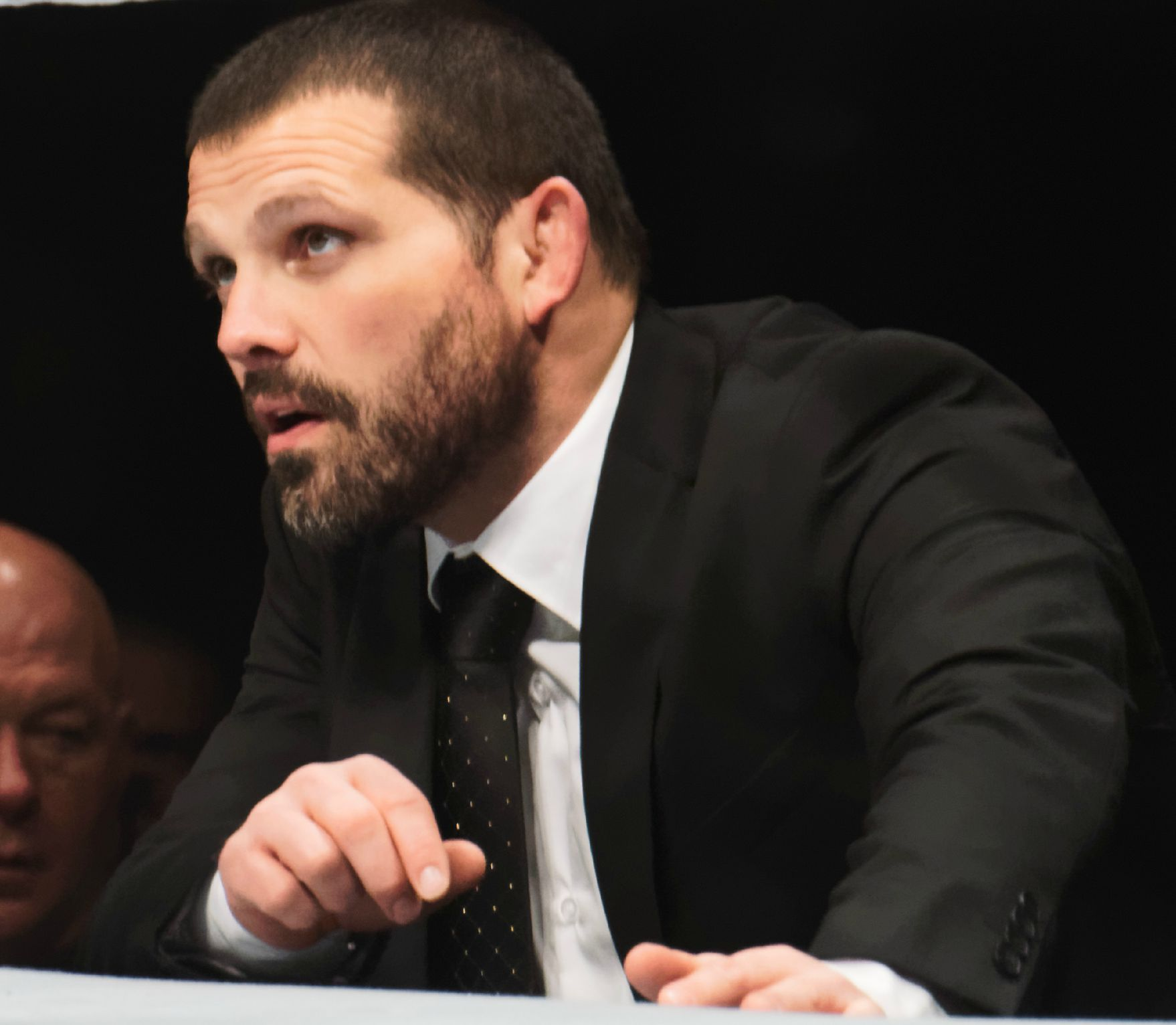 Jamie Noble during a WWE live event in April 2015.